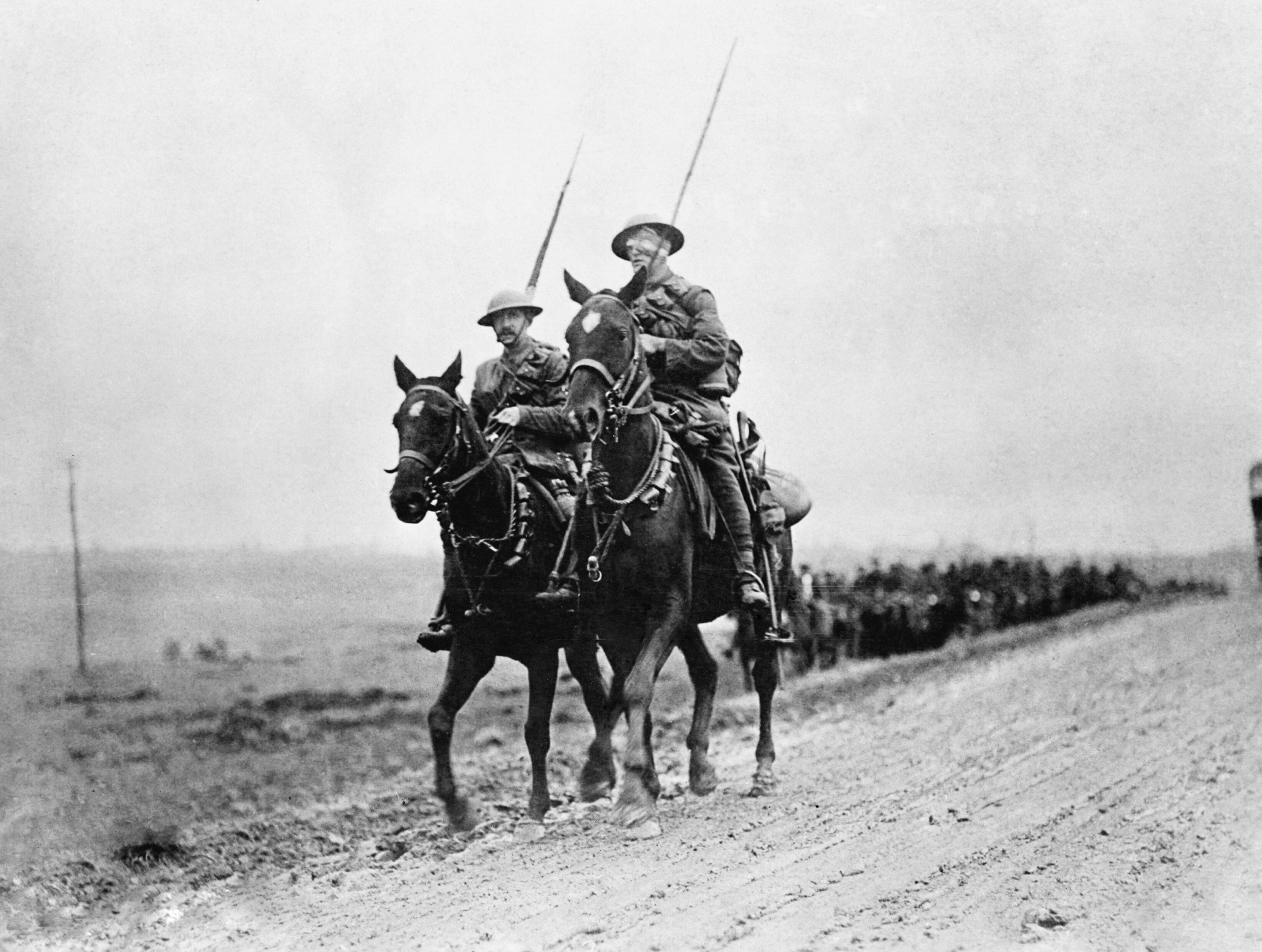 American First World War Official Exchange Collection 9th Lancers returning from the Front, Premont, Aisne, 13 October 1918